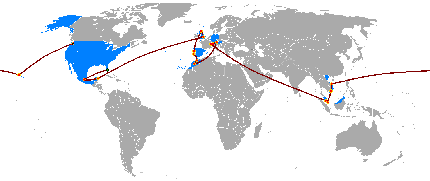 The Route Map of The Amazing Race 3, recreated with black dot leg stops